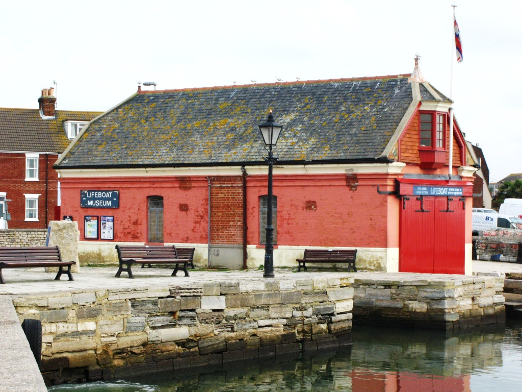 The old lifeboat station at Fisherman's Dock, Poole, Dorset. This is now the town's lifeboat museum.